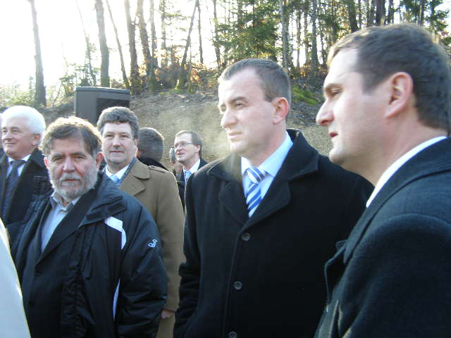 Mayors of the Vendvidék (András Doncsecz from Kétvölgy, Gábor Ropos from Felsőszölnök, Gábor Huszár from Szentgotthárd) and other public persons (László Göncz, hungarian minority leader from Prekmurje) in the transfer of the Mass Road, Kétvölgy near the Slovene border (Čepinci)